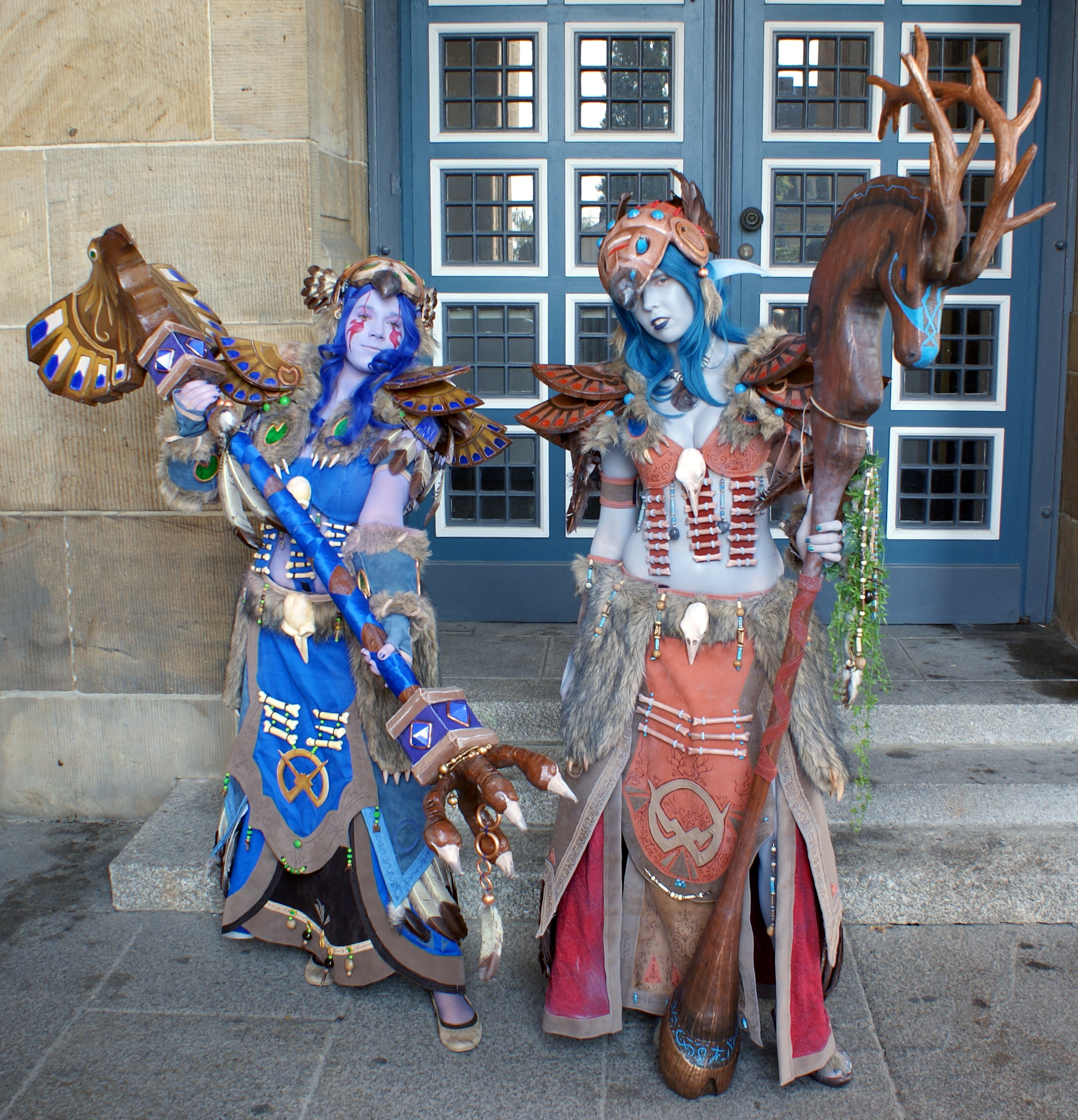 2 World of Warcraft cosplayer, costumed as night elf druids.